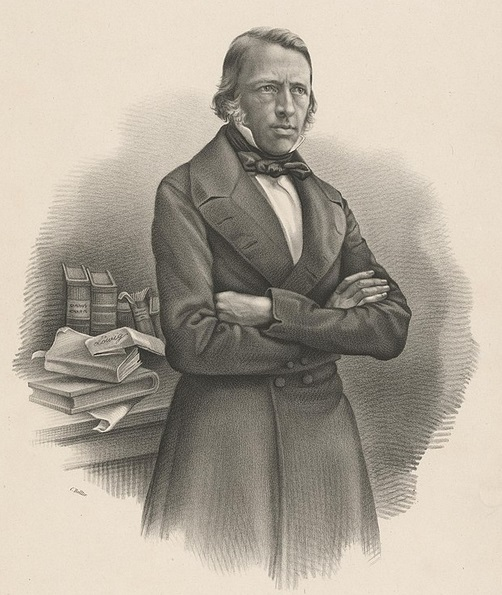 German Chemist Carl Löwig